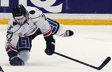 Joachim Rhodin during a SHL game against AIK.